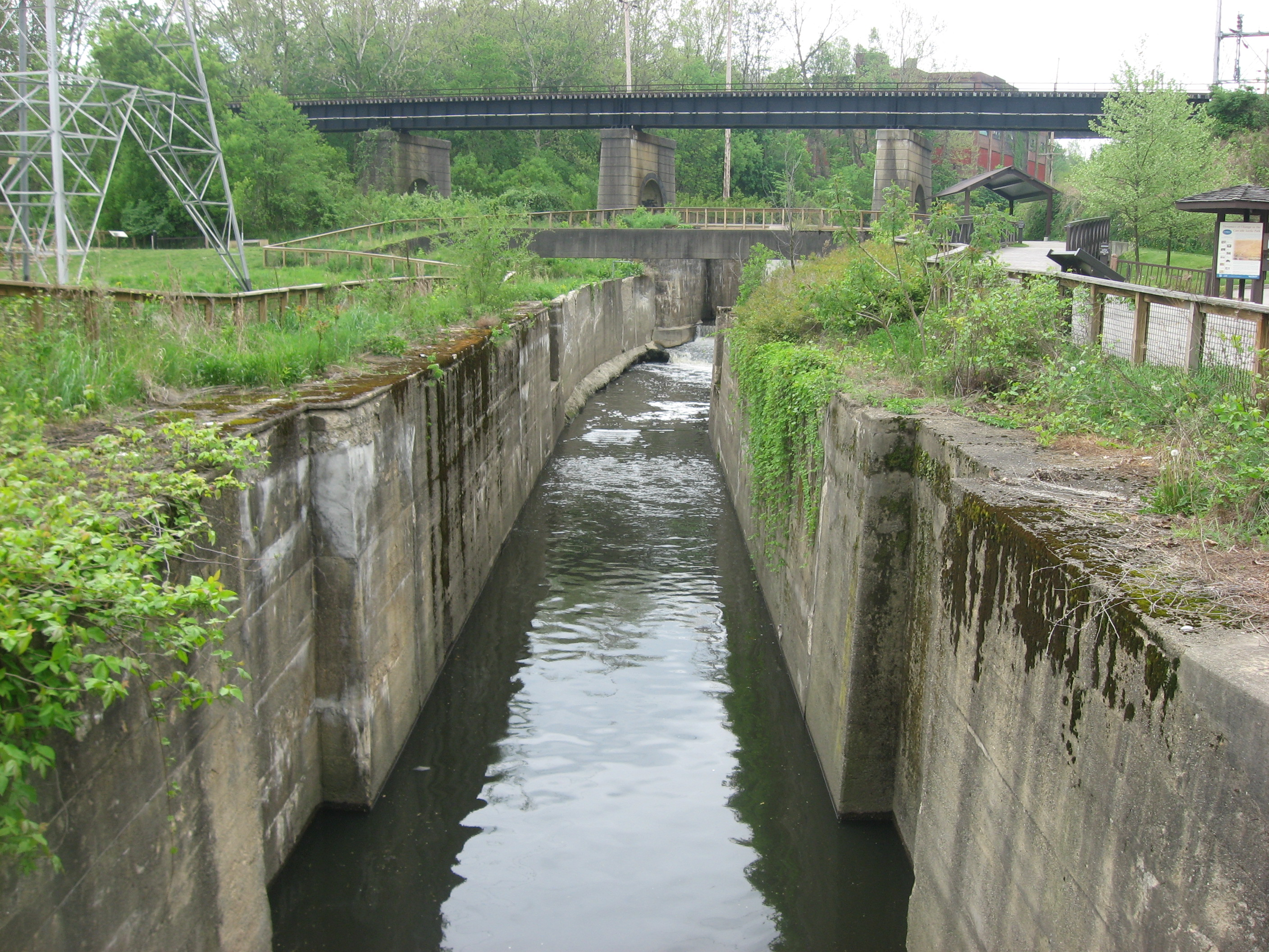 Looking upward in Ohio and Erie Canal Lock 14 from the North Street bridge in Akron, Ohio, United States. This lock and several around it compose the Cascade Locks Historic District, a historic district that is listed on the National Register of Historic Places.